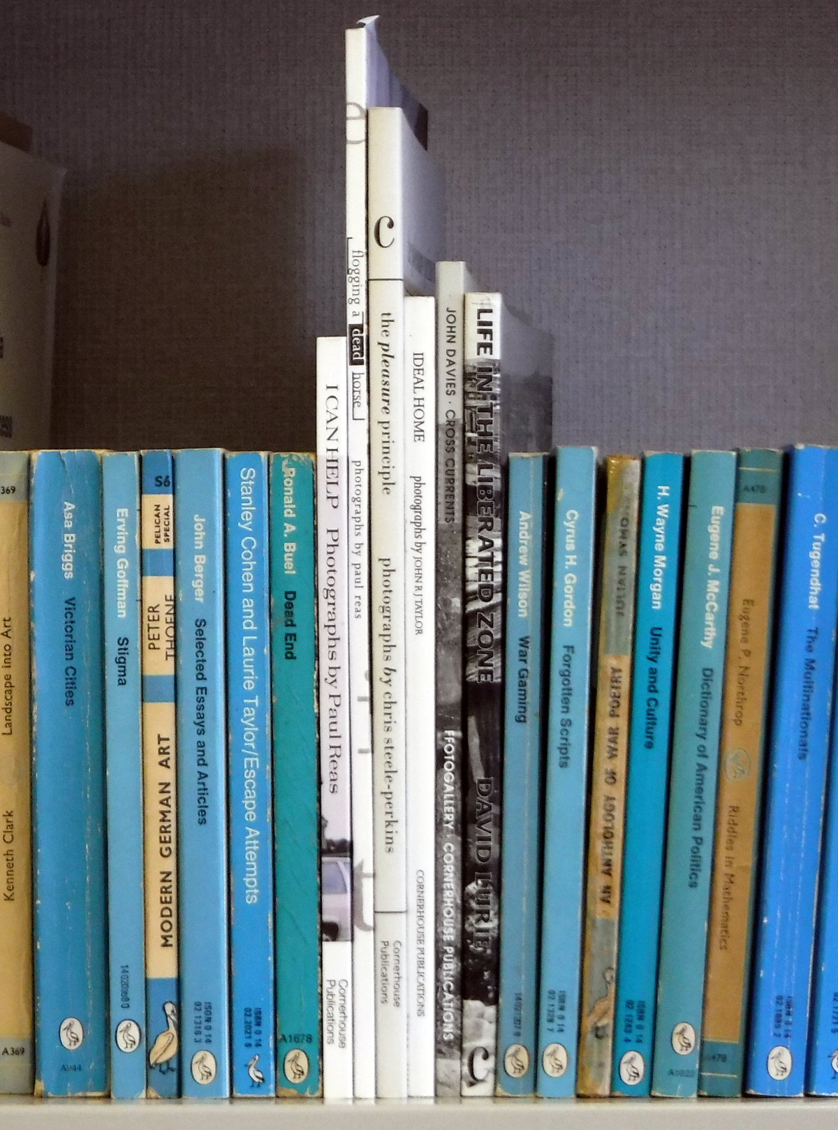 Some photobooks published by Cornerhouse (flanked by irrelevant Pelicans)